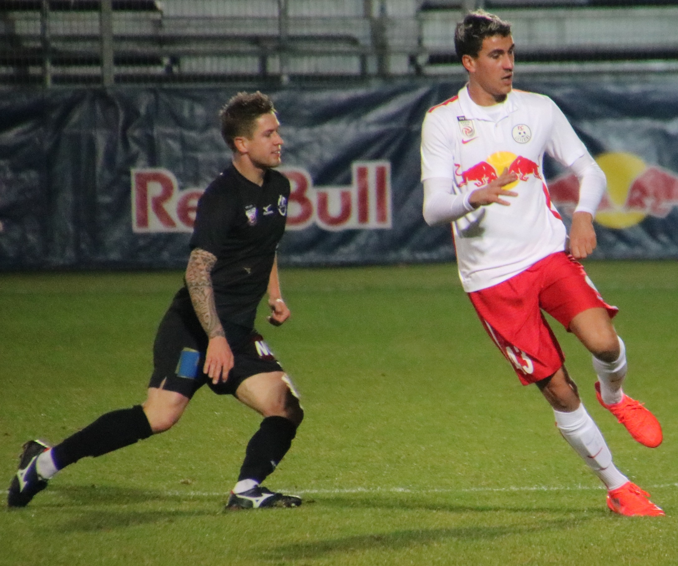 league match Austria 2nd league